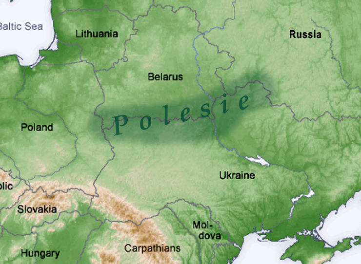 Map of Polesia topography (English version), improved